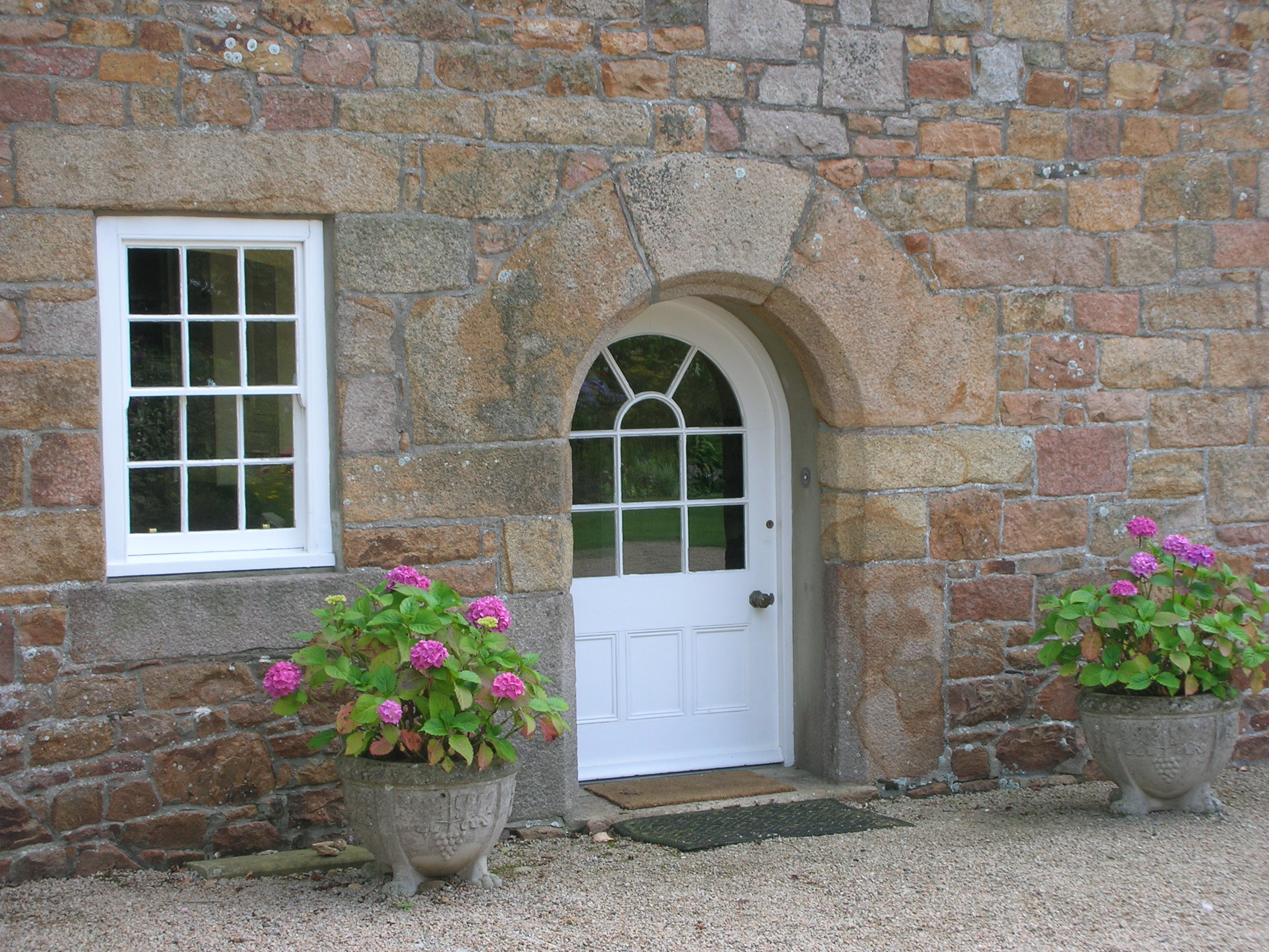 Door at La Mare Wine Estate, Jersey.